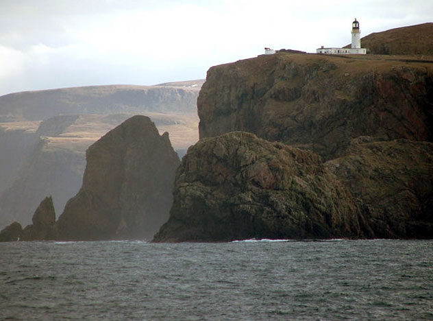 Cape Wrath from seaward